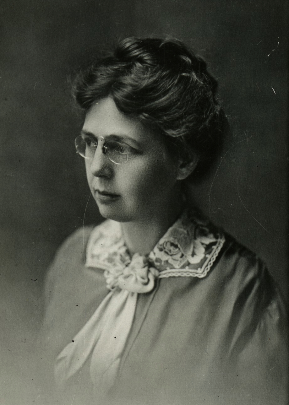 Lucia McCulloch (1873-1955) was an assistant pathologist in the U.S. Department of Agriculture Bureau of Plant Industry, where she worked on crown gall and gladiolus diseases and pests and collaborated with botanist Nellie Adalesa Brown. Taken June 1915